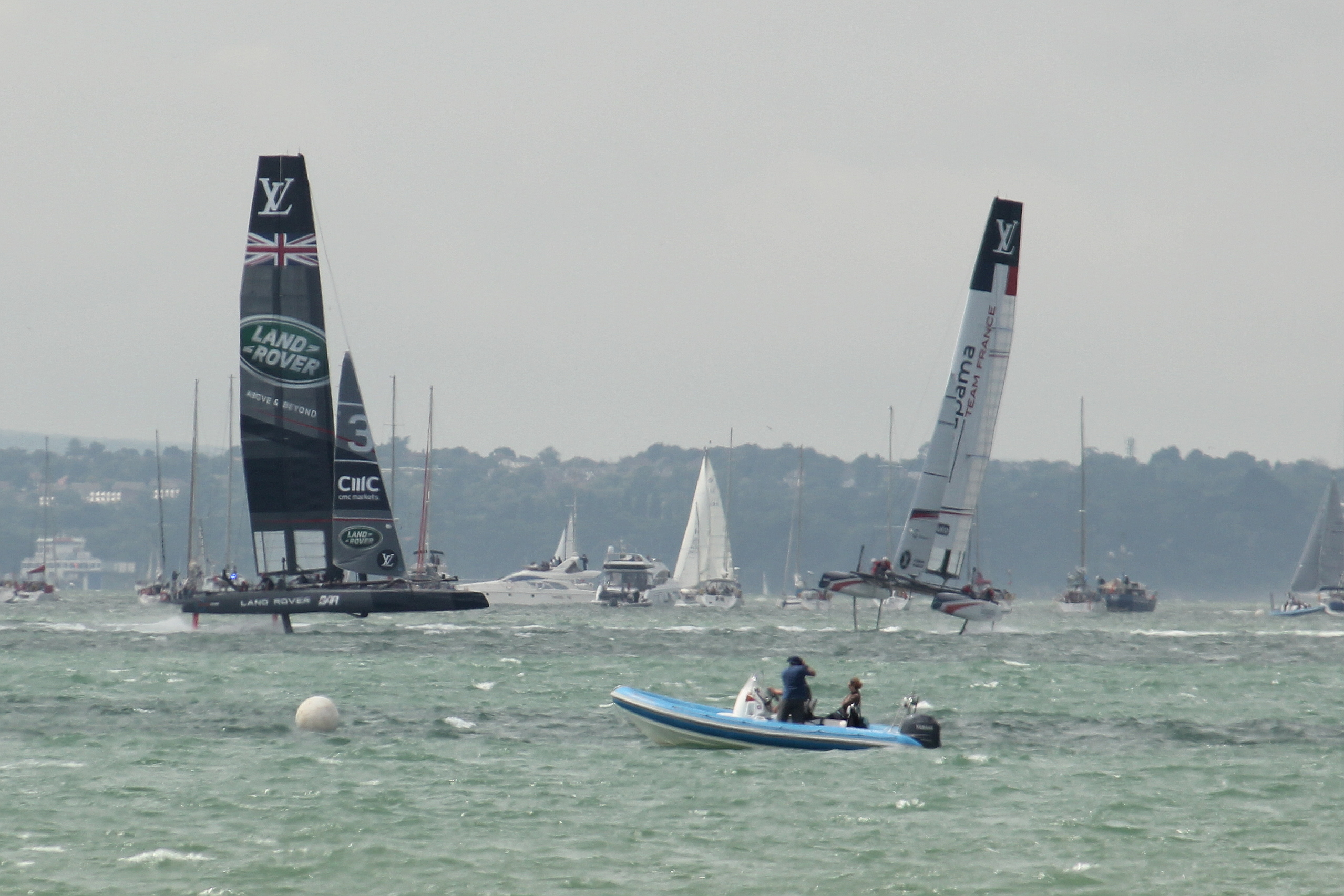 British and French teams competing in AC45F yachts at the the America's Cup World Series, Portsmouth 2016